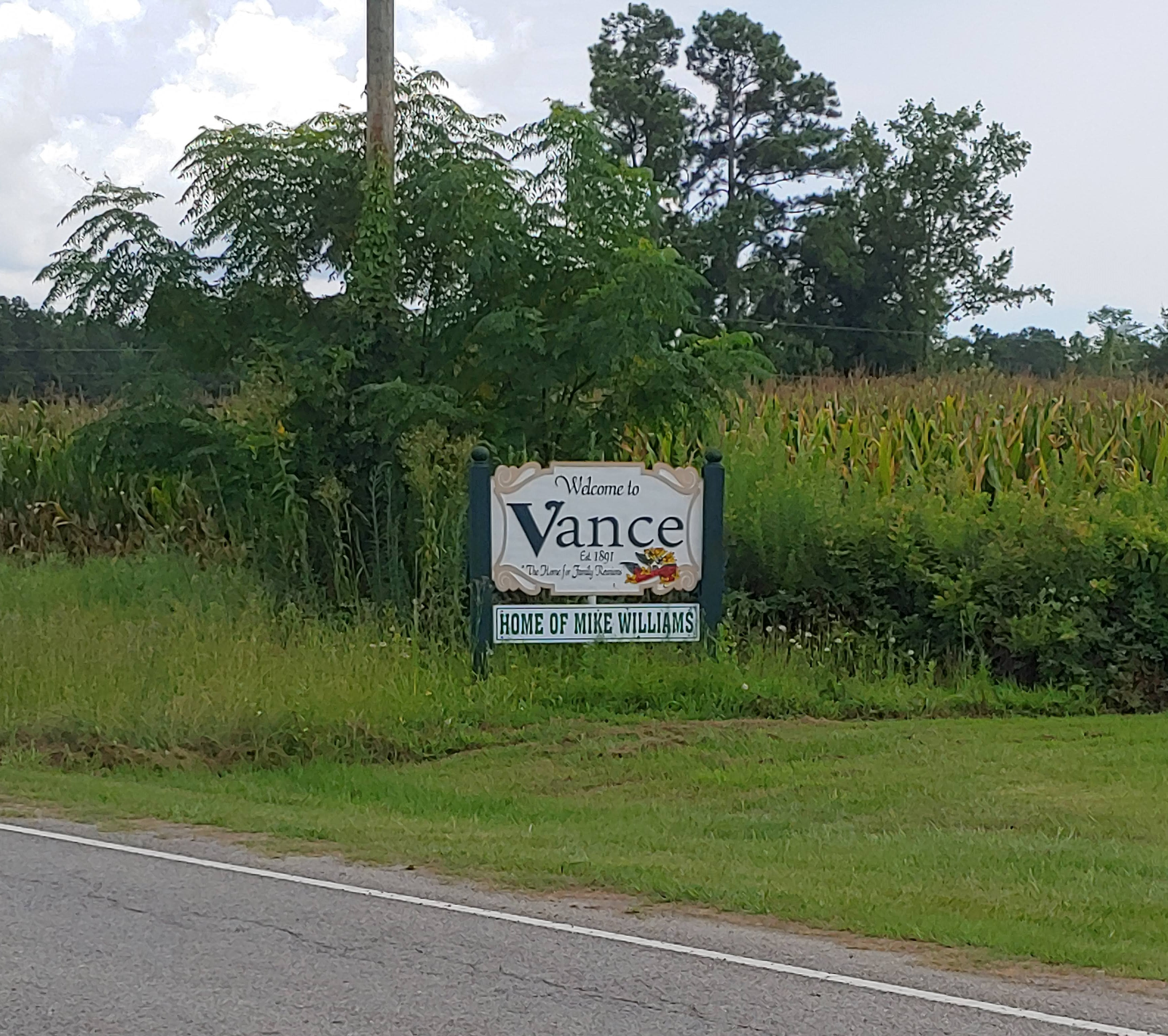 Welcome sign for the town of Vance, SC as seen from SR 210 (Vance Rd.) approaching the town center from the west.